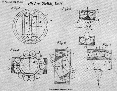 Sven Wingquist patent drawing, PRV (Patent office Sweden), patent no. 25406 for the multirow self alining ball bearing, 1907. Photo copy of original drawing.